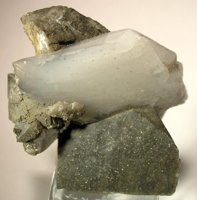 Whewellite Locality: Schlema, Schlema-Hartenstein District, Erzgebirge, Saxony, Germany (Locality at ) Size: thumbnail, 2.9 x 2.8 x 2.3 cm Whewellite Large and outstanding representative of the species, from teh CLASSIC and old locality for which it is most famous. The main crystal is white, tabular, and lustrous with a silky sheen to it. The excellent sharp form, translucent nature, and beautiful way this sits in the matrix makes it a very aesthetic thumb. BETTER IN PERSON!!! 2.9 x 2.8 x 2.3 cm